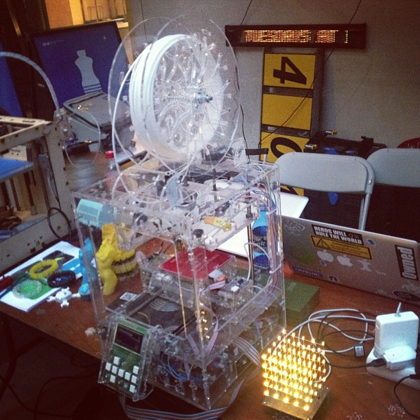 "3d printer @ CBS open source hackathon #3dprinter #cbs"